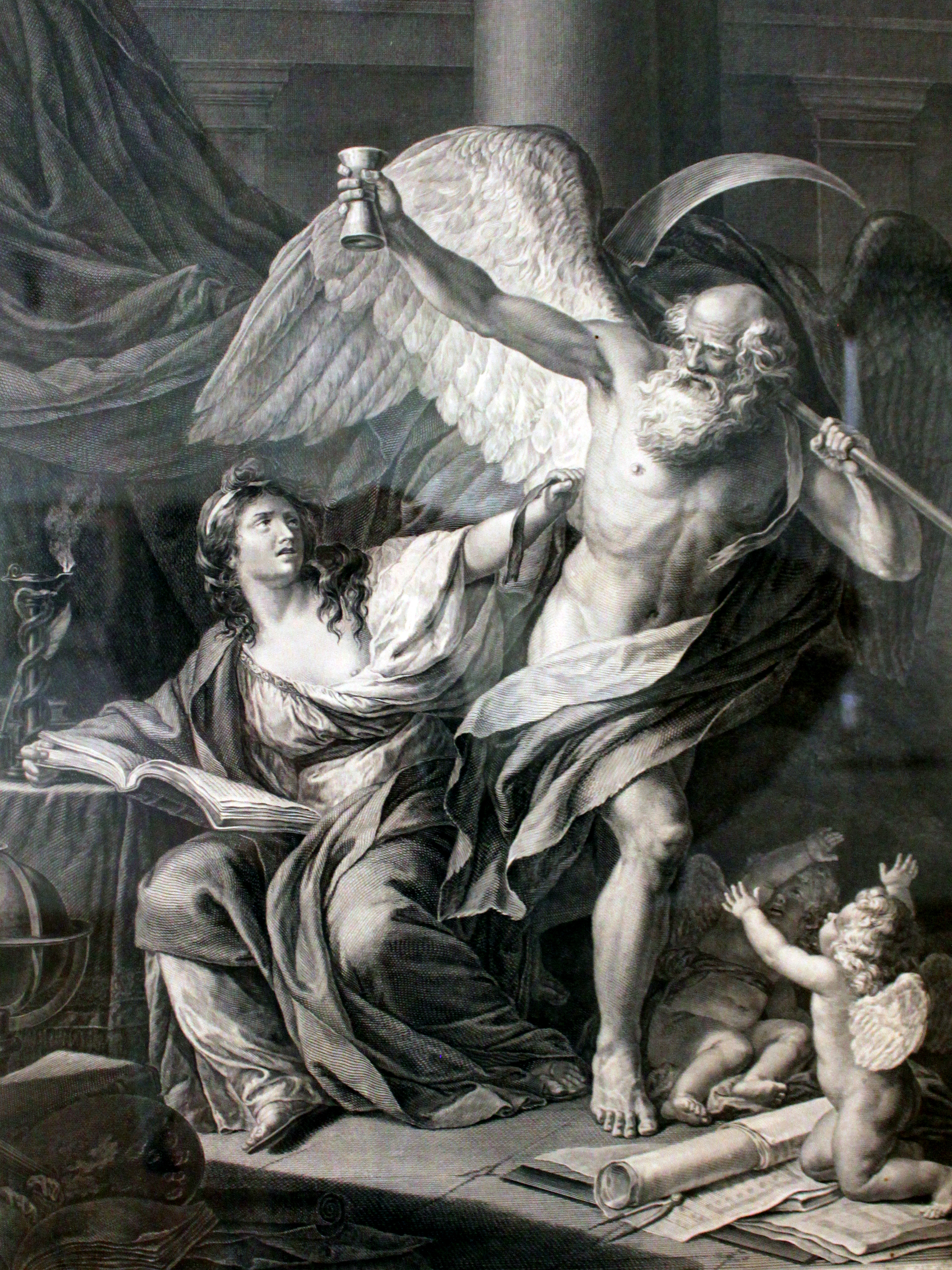 The Knowledge stopping time.